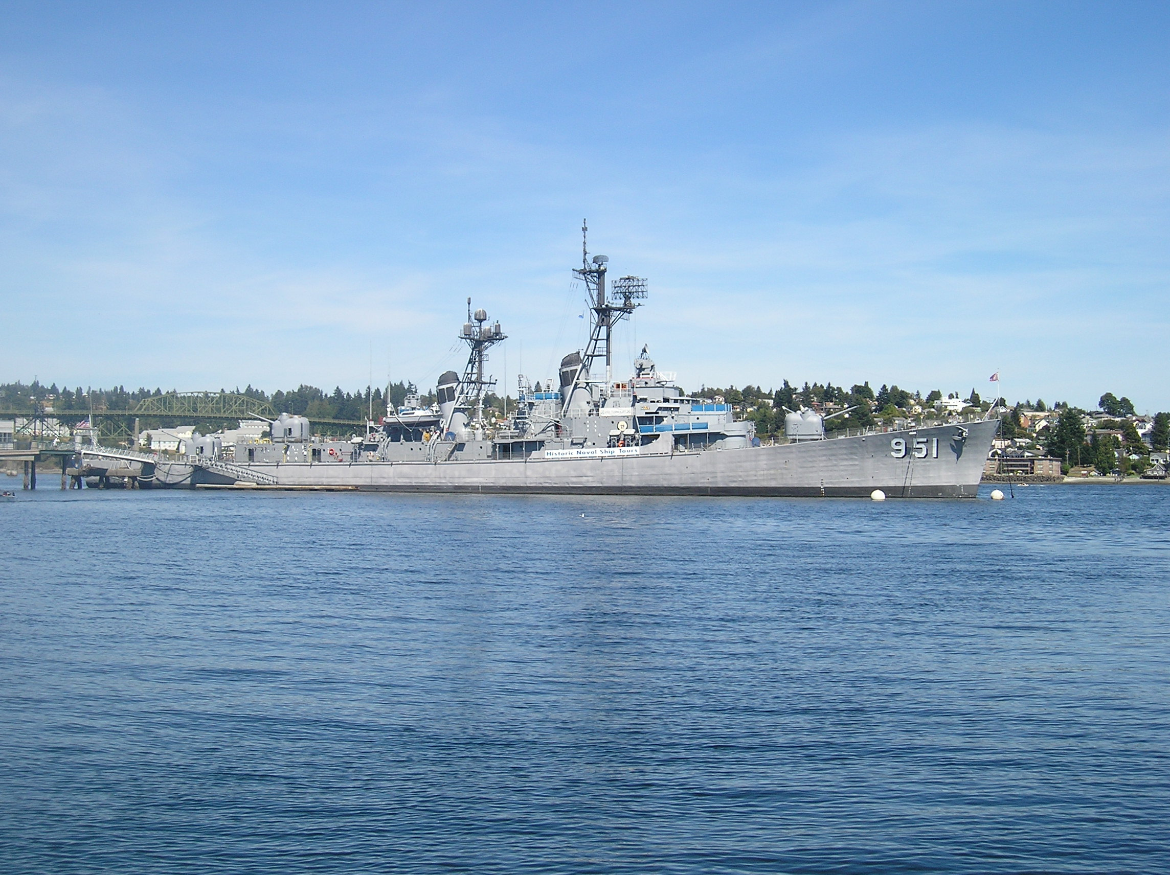 The museum ship USS Turner Joy (DD-951), docked in Bremerton, Washington (USA), in 2006.